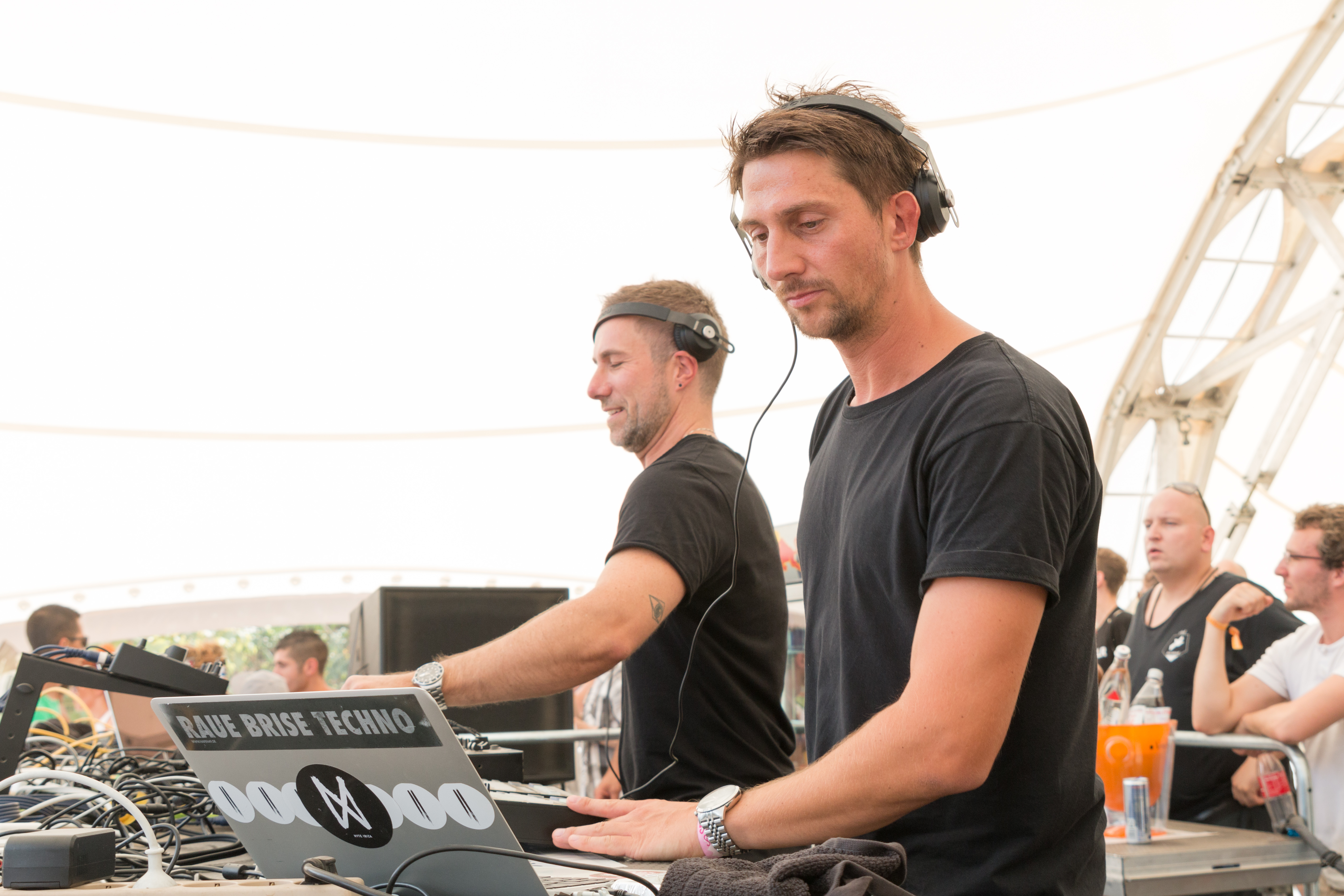 Pan-Pot at the Sea You Festival in Freiburg im Breisgau on July 19th, 2015.